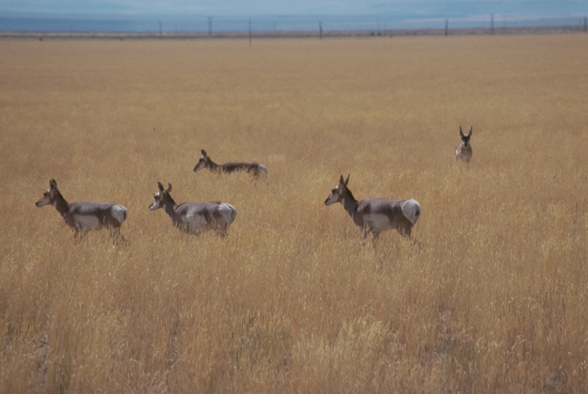 Antilocapra americana — Pronghorn "antelope" herd. In the Catlow Valley of Harney County, the Great Basin region of Oregon.